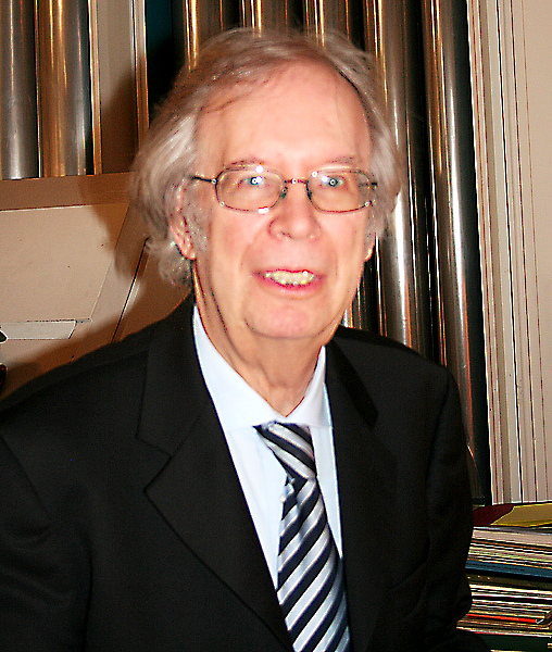 Joachim Dorfmüller (b 1938) German musicologist and organist